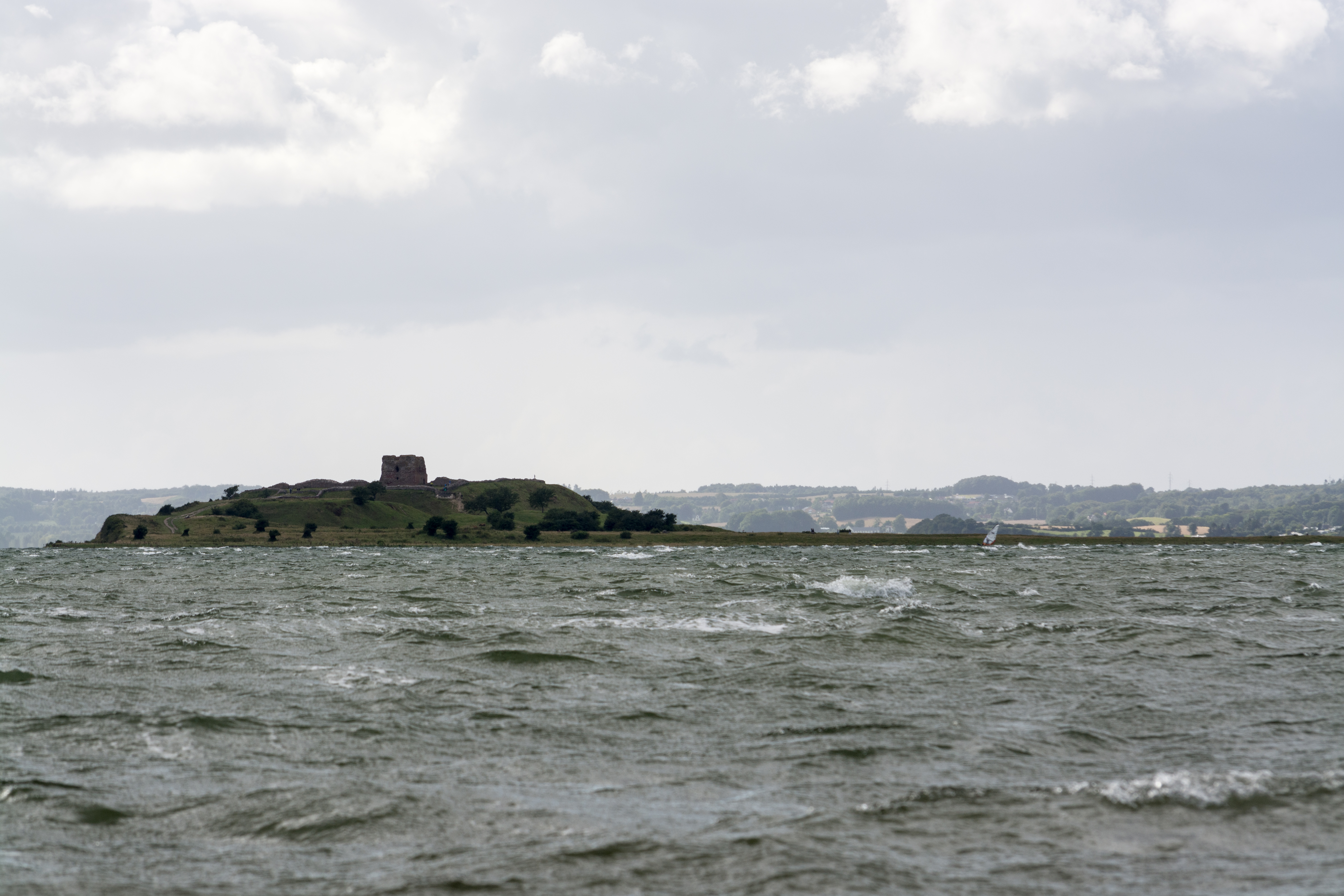 Ruin of Kalø Castle (Syddjurs Kommune), view from east.